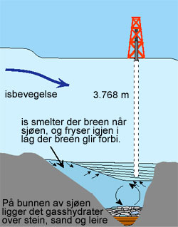 Scheme of Lake Vostok with Norwegian description